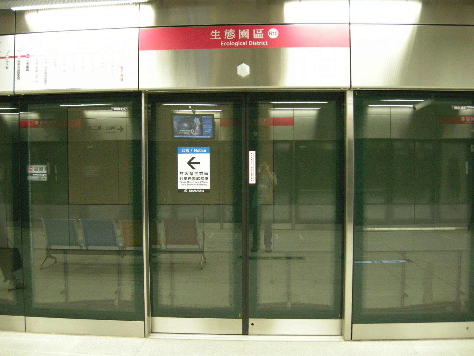 The platform screen door of Ecological District Station of Kaohsiung MRT.中文（台灣）: 高雄捷運紅線生態園區站的月台門。